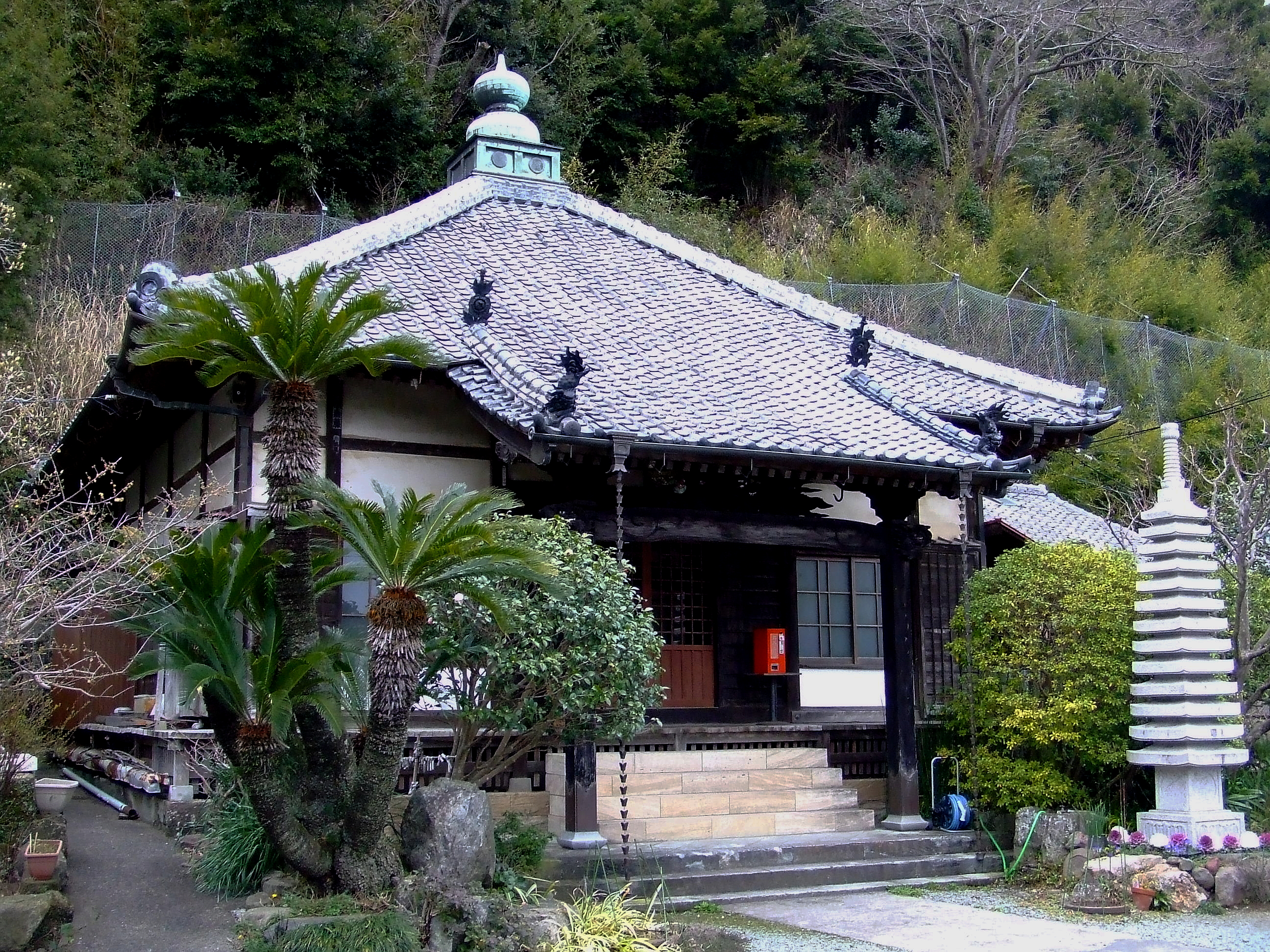 The Choraku-ji Temple in Shimoda, Shizuoka Prefecture, Japan, where the Treaty of Shimoda between Russia and Japan was signed in 1855. I took this photo with a digital camera on 24th February 2007.